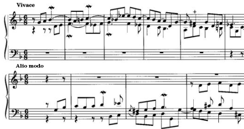 Start of the two versions of Nun komm der Heiden Heiland by Georg Friedrich Kauffmann from Harmonische Seelenlust